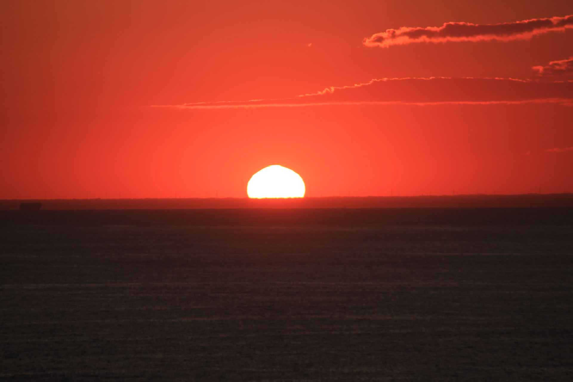 Sunset as seen from Nishiizu, Shizuoka Prefecture, Japan.